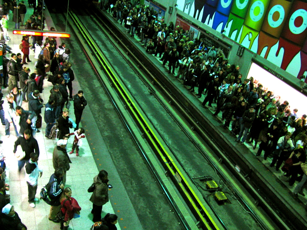 Berri-UQAM metro station in Montreal, Quebec, Canada